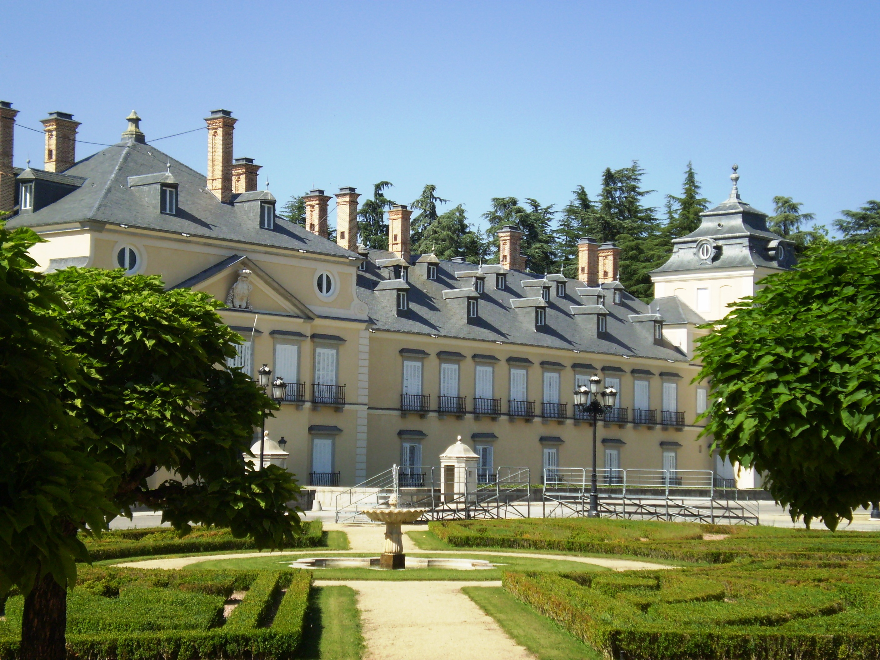 Royal Palace of El Pardo, Madrid, Spain